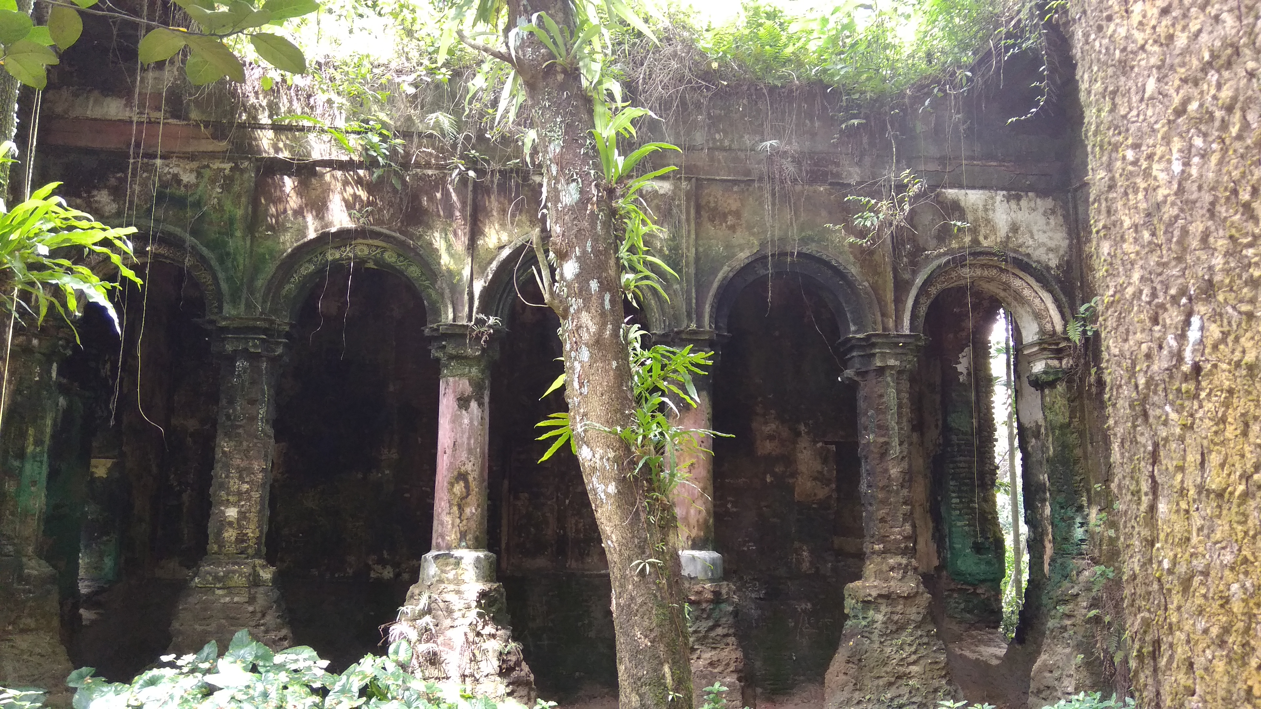 Dandik Theke Dorbar Hall